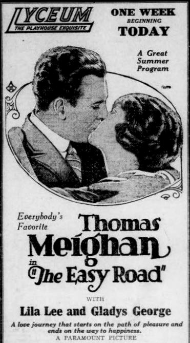 Newspaper advertisement for the American film The Easy Road (1921) with Thomas Meighan, on page 9 of the July 9, 1921 The Duluth Herald.